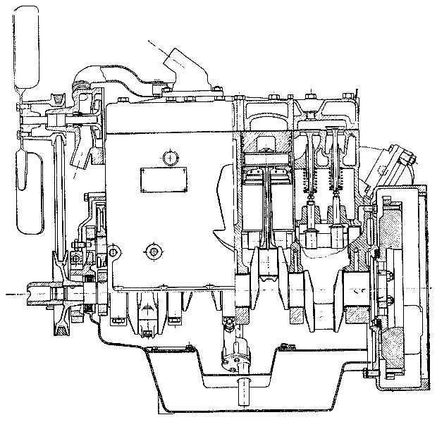 Sisu AMA, four-stroke SV engine from 1950s. Produced by Oy Suomen Autoteollisuus Ab.